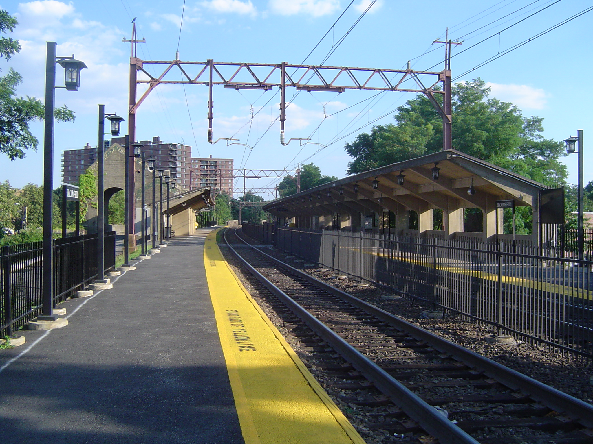 Looking south in Bloomfield Station